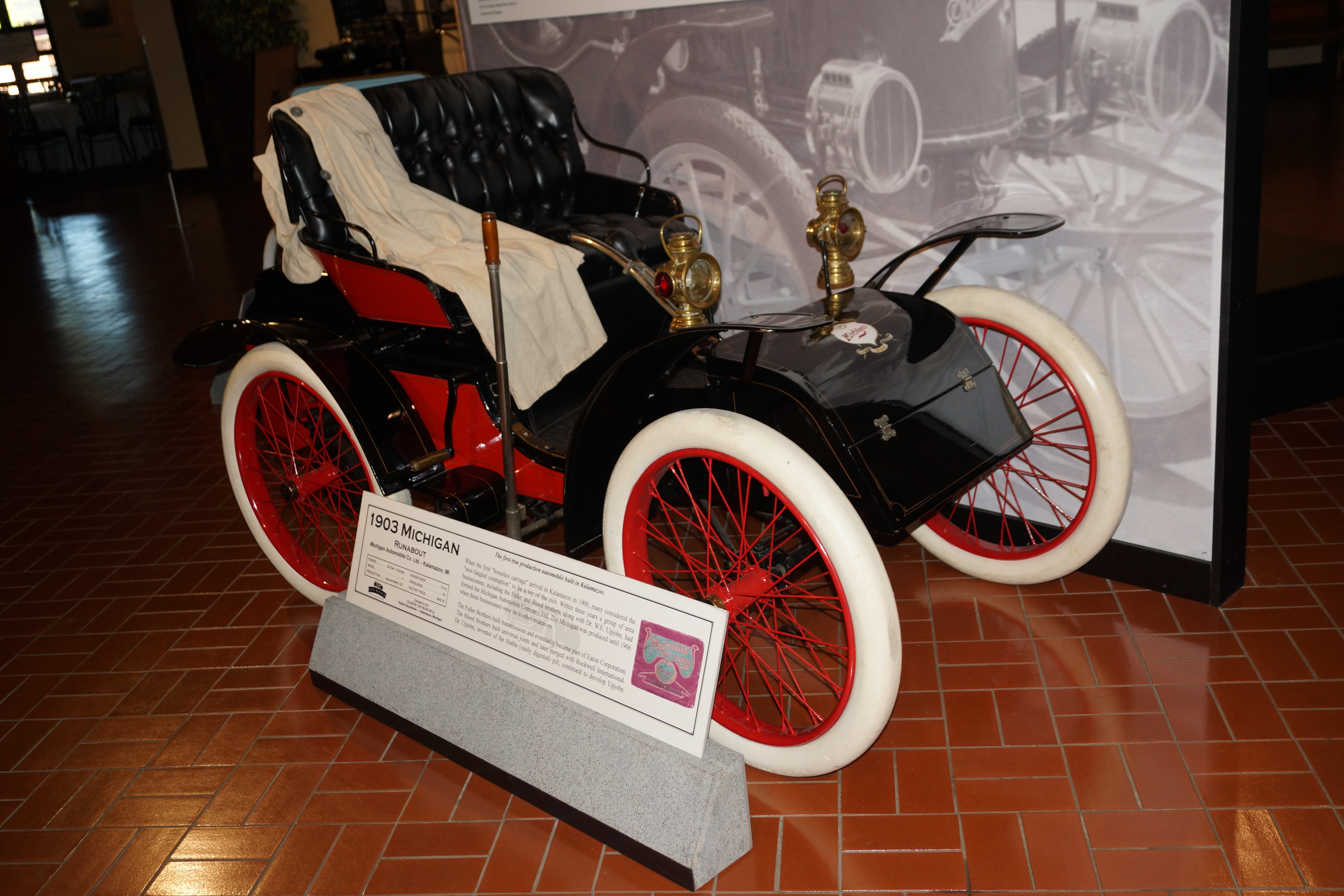 Gilmore Car Museum 6865 W Hickory Rd. Hickory Corners, Michigan May 2017 Back in February I was told I had to schedule some vacation before July, At about the same, an article appeared on the Hemmings blog about the first ever joint meeting of AACA (Anitique Automobile Club of America) and CCCA (Classic Car Club of America) in Auburn, Indiana. It was too good of opportunity to pass up two car clubs and all of the automotive history packed into Auburn, Indiana. Since I was driving from Mnnesota, I made a slight detour to see the Gilmore Car Museum on the way to Indiana. Link to Hemmings Article: Click here for more car pictures at my Flickr site. Or here for my Car Crazy Tumblr site. Or on Twitter @DVS1mn.